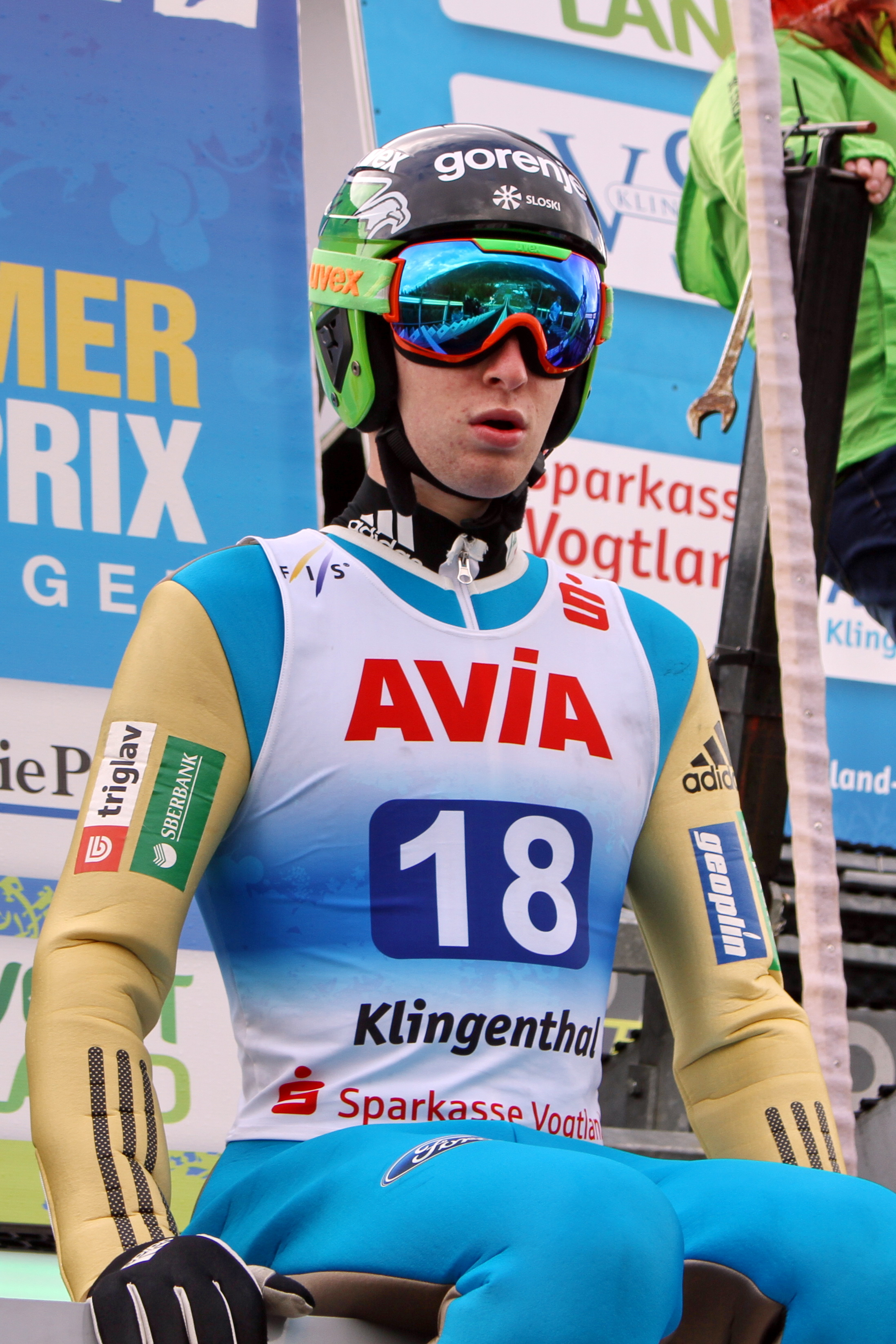 FIS Ski Jumping Summer Grand Prix Klingenthal 2017 on 2017-10-03 Žiga Jelar